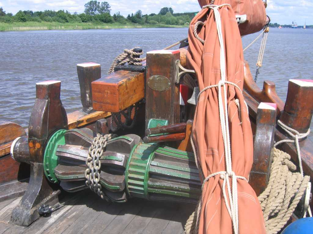 part of sailingship